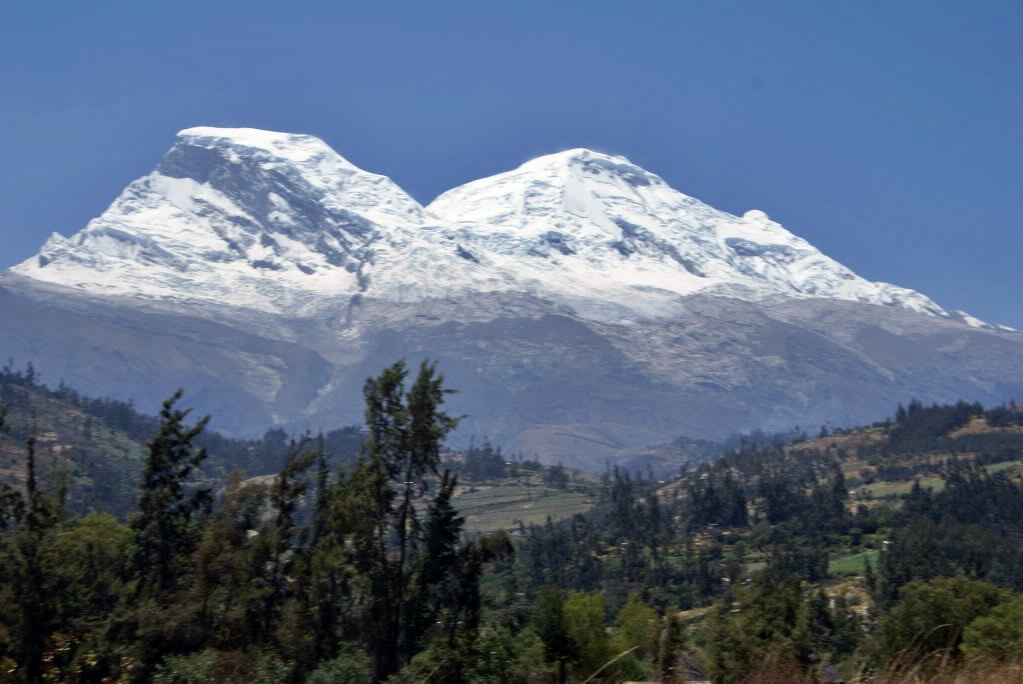 Huascaran Mountain seen from Yungay.